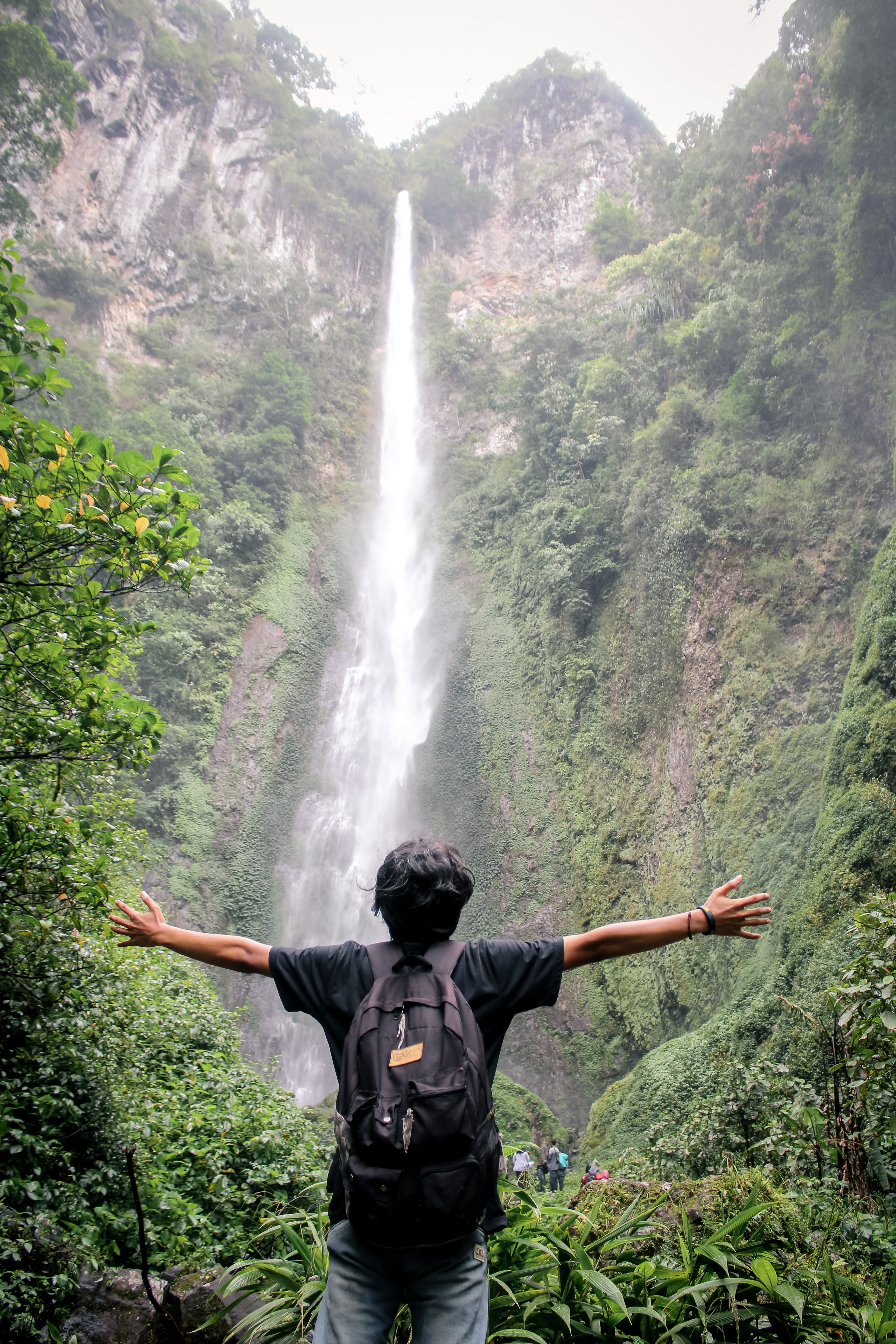 Air terjun ini memiliki ketinggian kurang lebih 50 Meter.[2] Sumber air dari Air Terjun Telun Berasap adalah sungai-sungai yang berhulu disekitar Gunung Tujuh, dan sumber utama airnya adalah Air Terjun Gunung Tujuh, yaitu air terjun yang mengalir dari bibir Danau Gunung Tujuh yang terdapat di puncak Gunung Tujuh.[1] Air Terjun Telun Berasap terdapat di Telun Berasap, Gunung Tujuh, Kerinci.